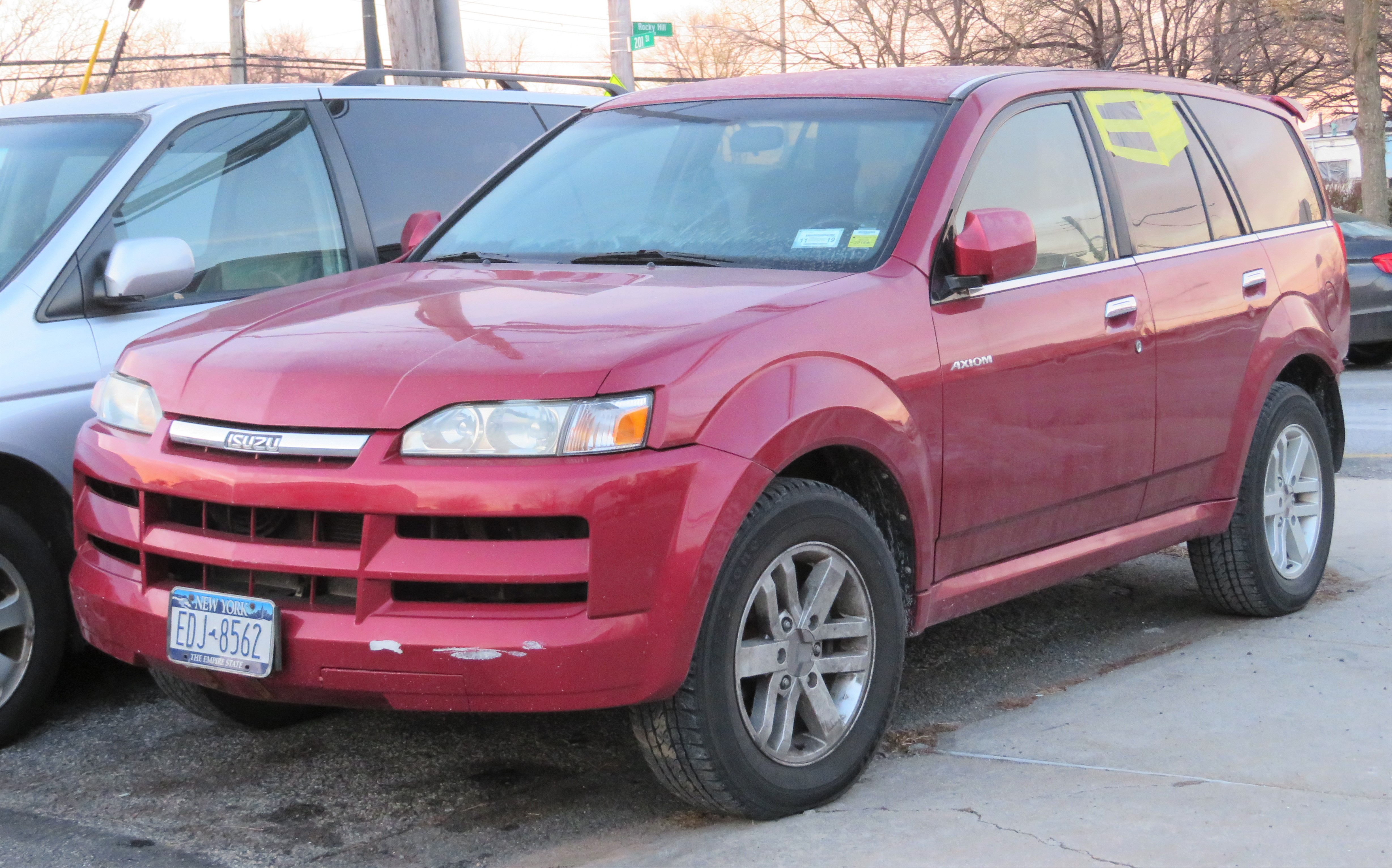 In Queens, New York.